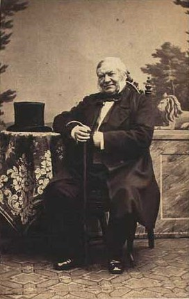 Niels Peter Kirck (1802-1864), Danish merchant and politician, MP